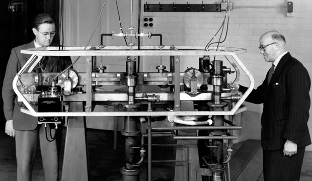 Louis Essen and J. V. L. Parry standing next to the world's first caesium atomic clock, developed at the UK National Physical Laboratory in 1955.